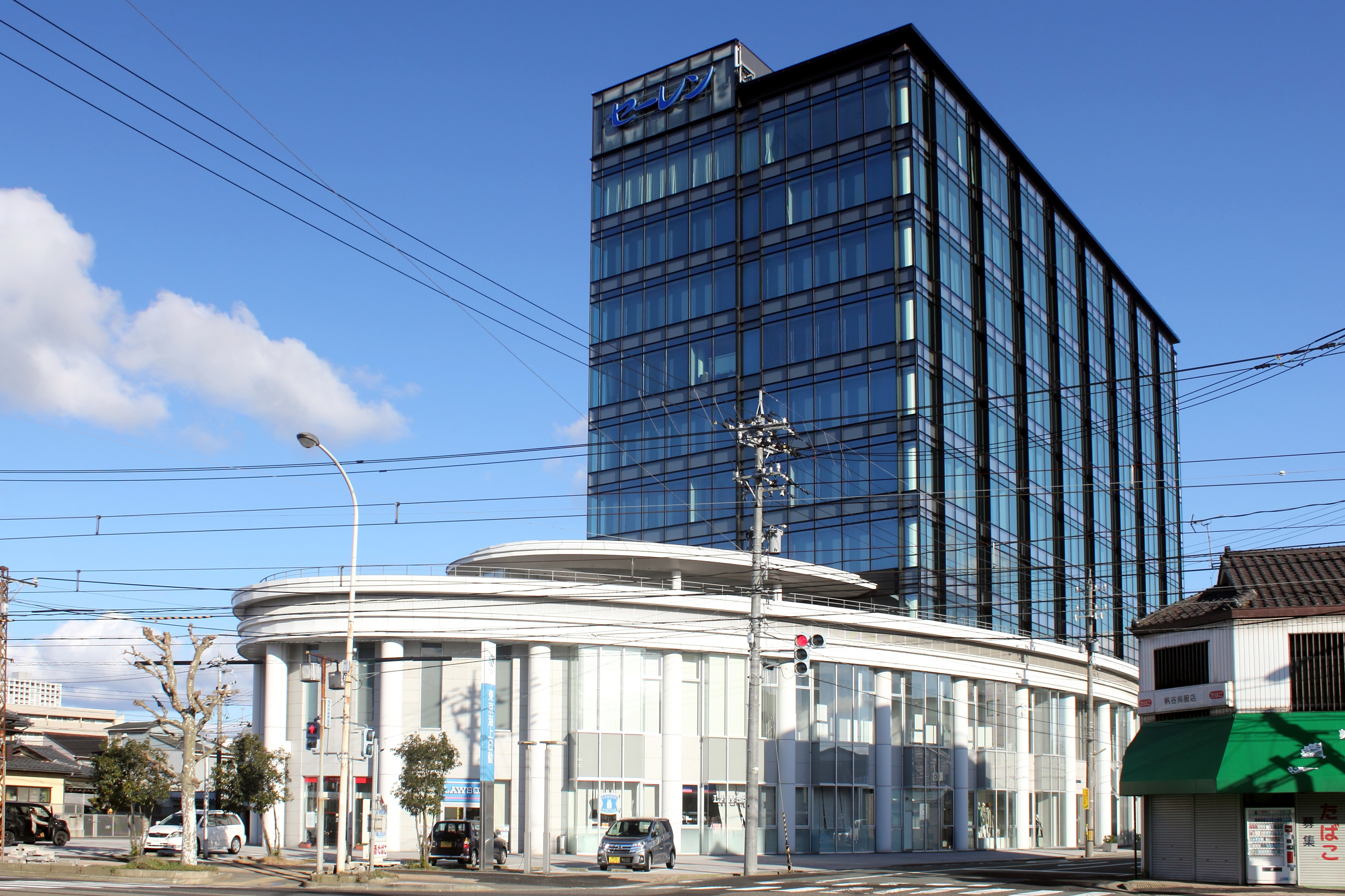 The Seiren head office building in Fukui, Japan